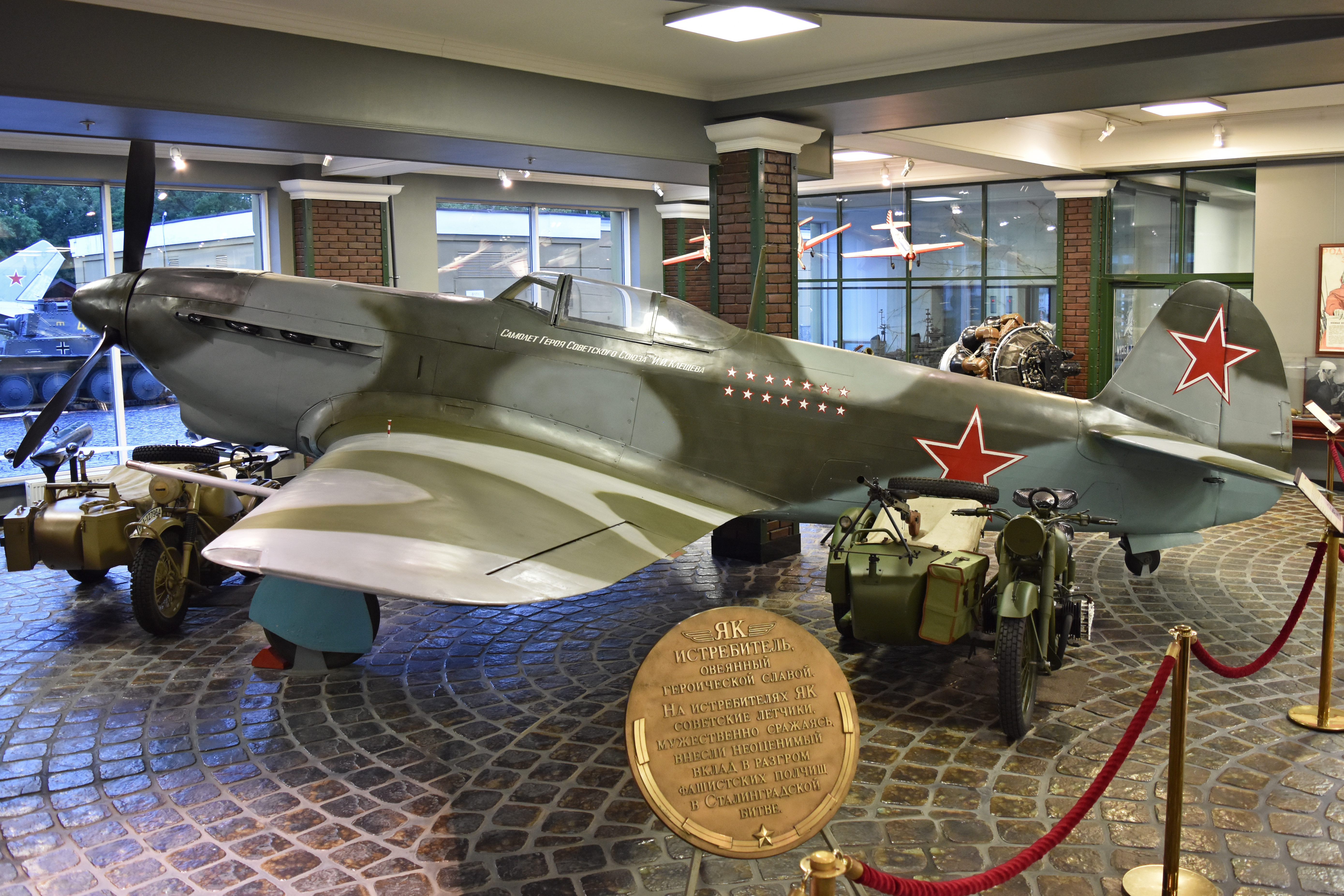 No identity or c/n are known for this well preserved Yak-9. On display at the Vadim Zadorozhny Technical Museum, Arkhangelskoye, Moscow Oblast, Russia. 26th August 2017